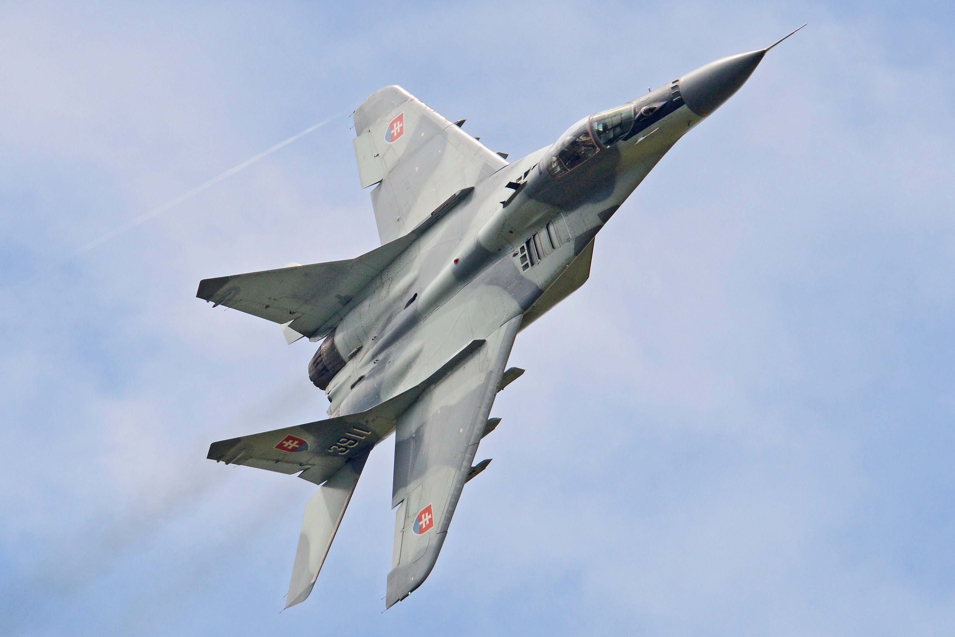 c/n 2960532039, l/n 4204. Operated by 1.Letka, Slovakian Air Force and based at Sliac Air Base. Displaying at the 2016 BAFDAY held at Florennes Air Base, Belguim. 25-6-2016